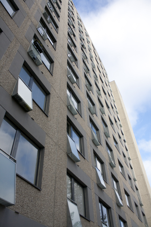 The facade of Mikontalo in Tampere, Finland